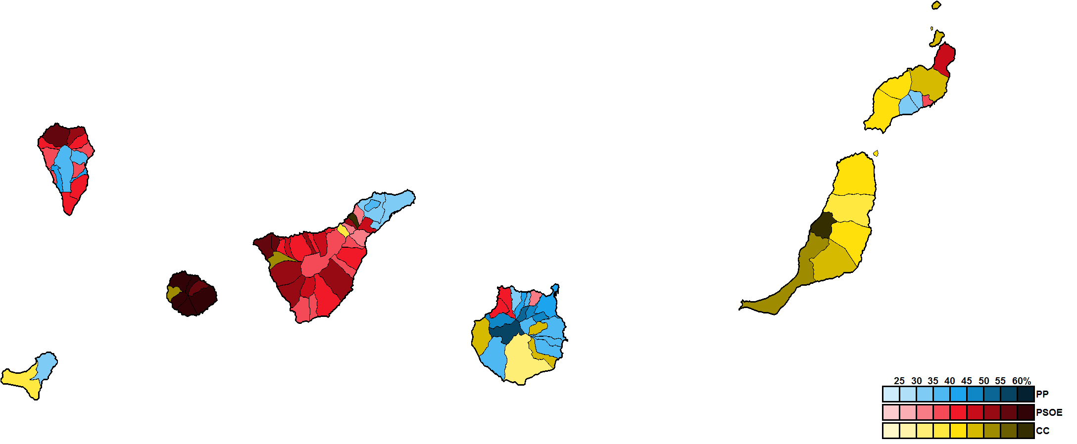 Most-voted party in Canary Islands municipalities, showing vote share obtained, in the Spanish general election, 1993.